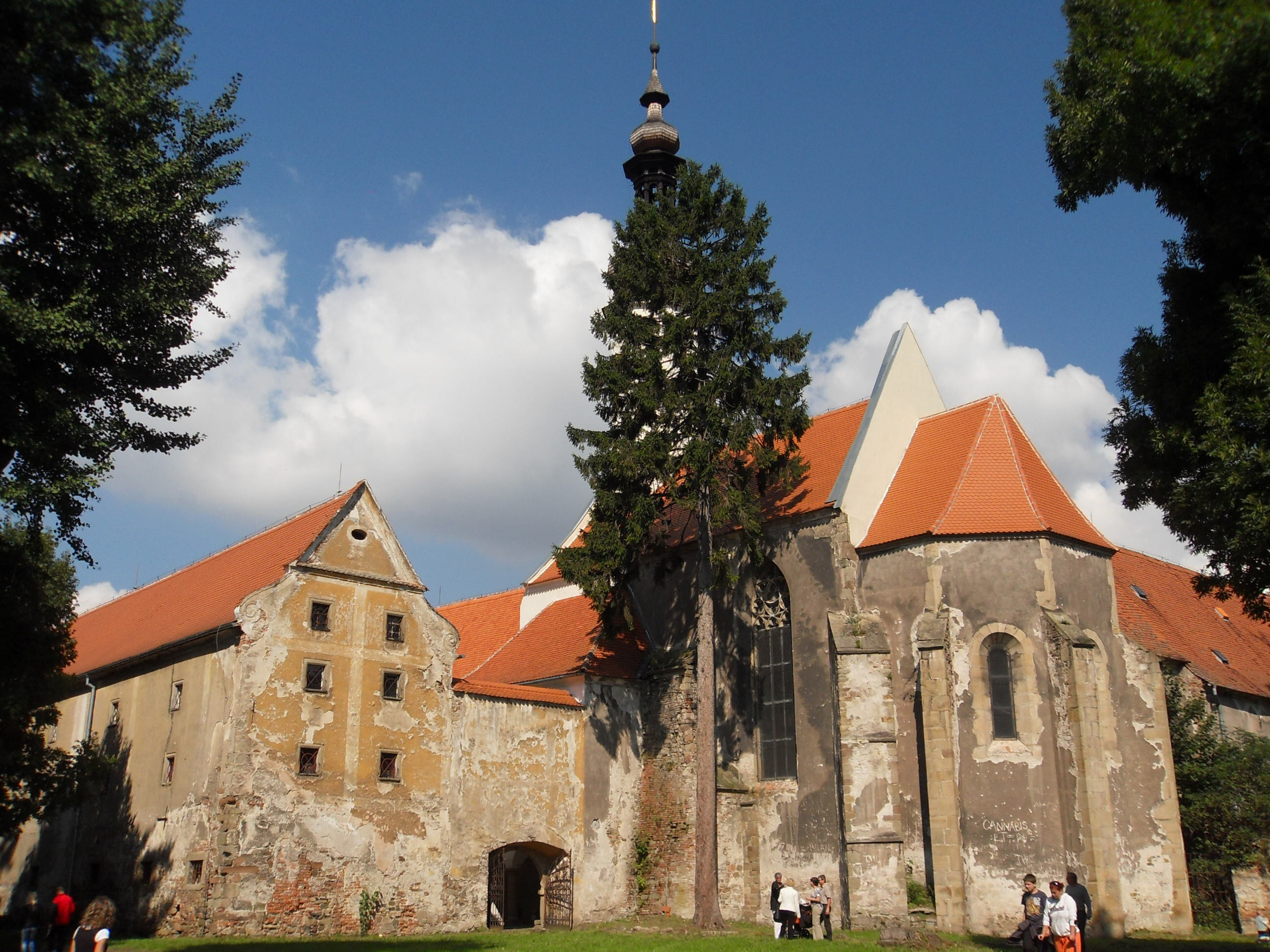 Oslavany Chateau, Brno-venkov District, Czech Republic